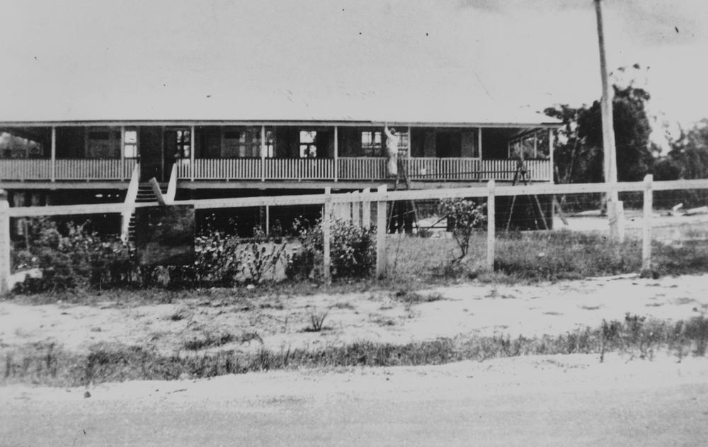 Gumdale School building, 1940.